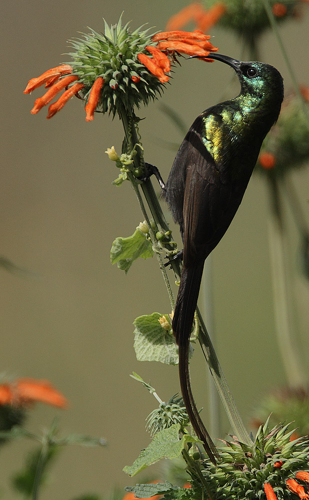 Bronze Sunbird (Nectarinia kilimensis). A breeding plumage male feeding on Leonotis blossoms.